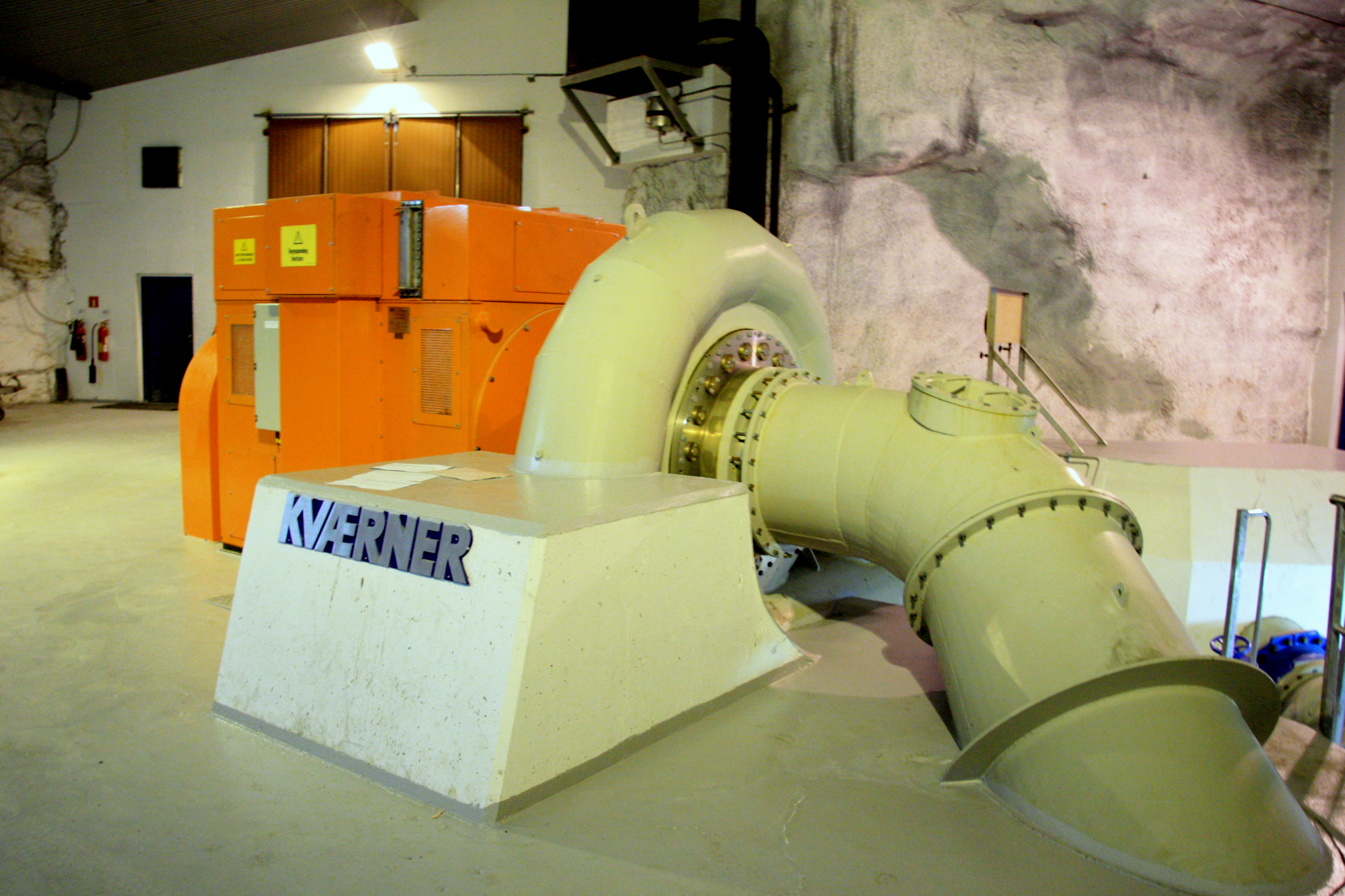 Inside Svabo energi station